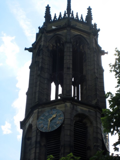 Clock Tower. This clock was placed on the left tower of St Peter's church to commemorate the coronation of Queen Elizabeth II. 631407